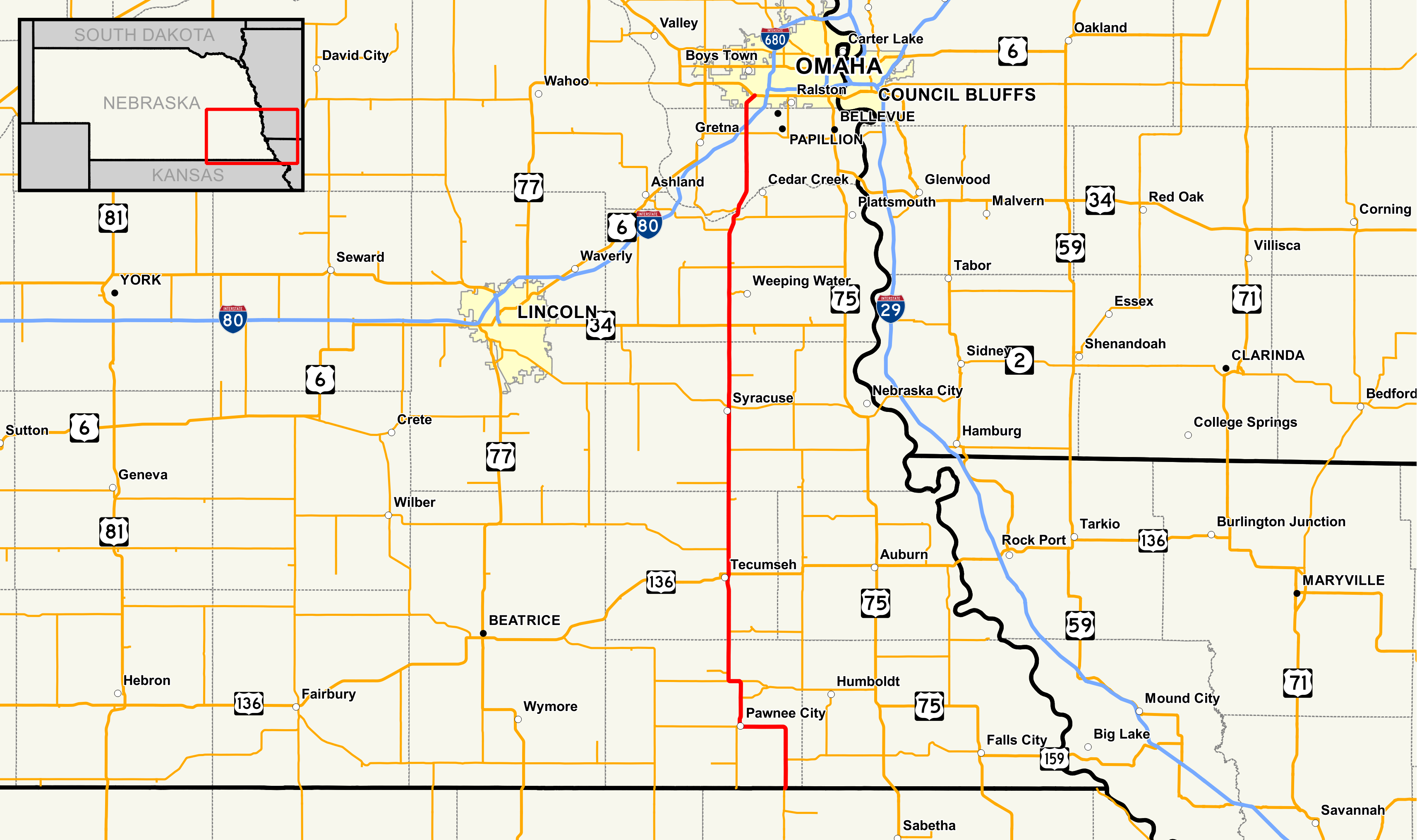 Map of Nebraska Highway 50 Data Sources: Nebraska Highways - - Dec 2016 Nebraska County Boundaries - - Dec 2016 Nebraska City Boundaries - - Dec 2016 This PNG graphic was created with QGIS